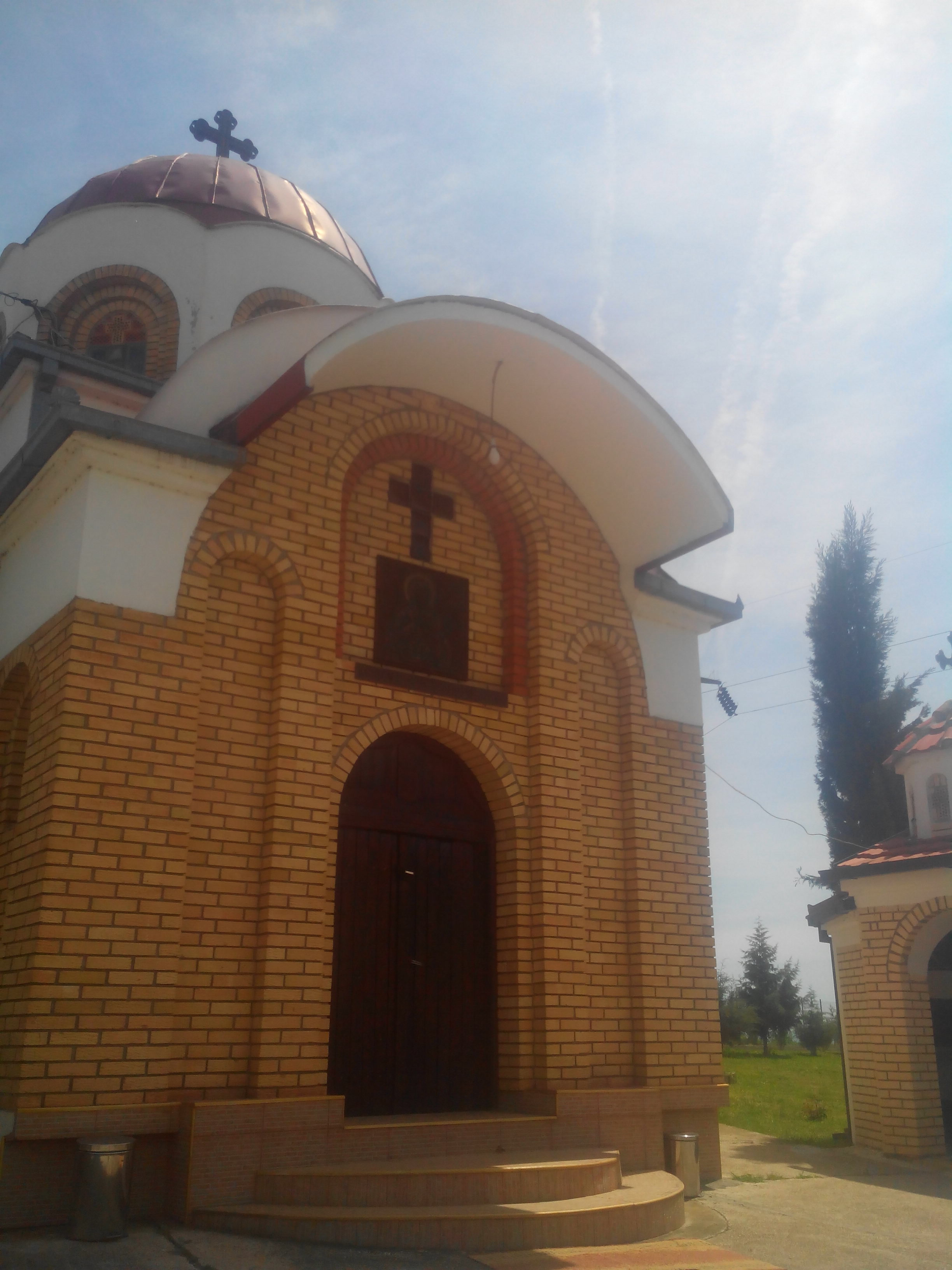 Света Недела